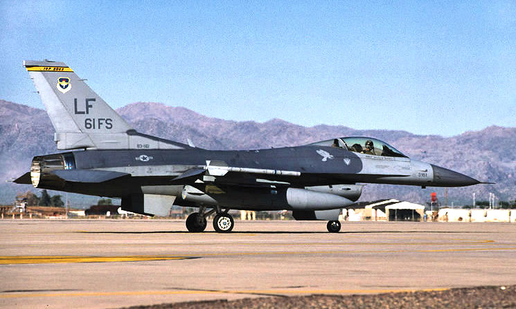 61st Fighter Squadron - General Dynamics F-16C Block 25B Fighting Falcon 83-1161